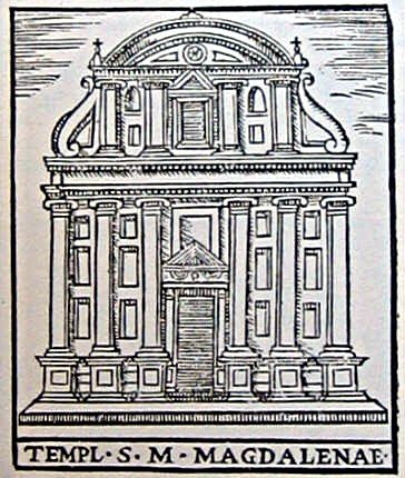 Santa Maria Maddalena delle Convertite by Girolamo Francino (1588)